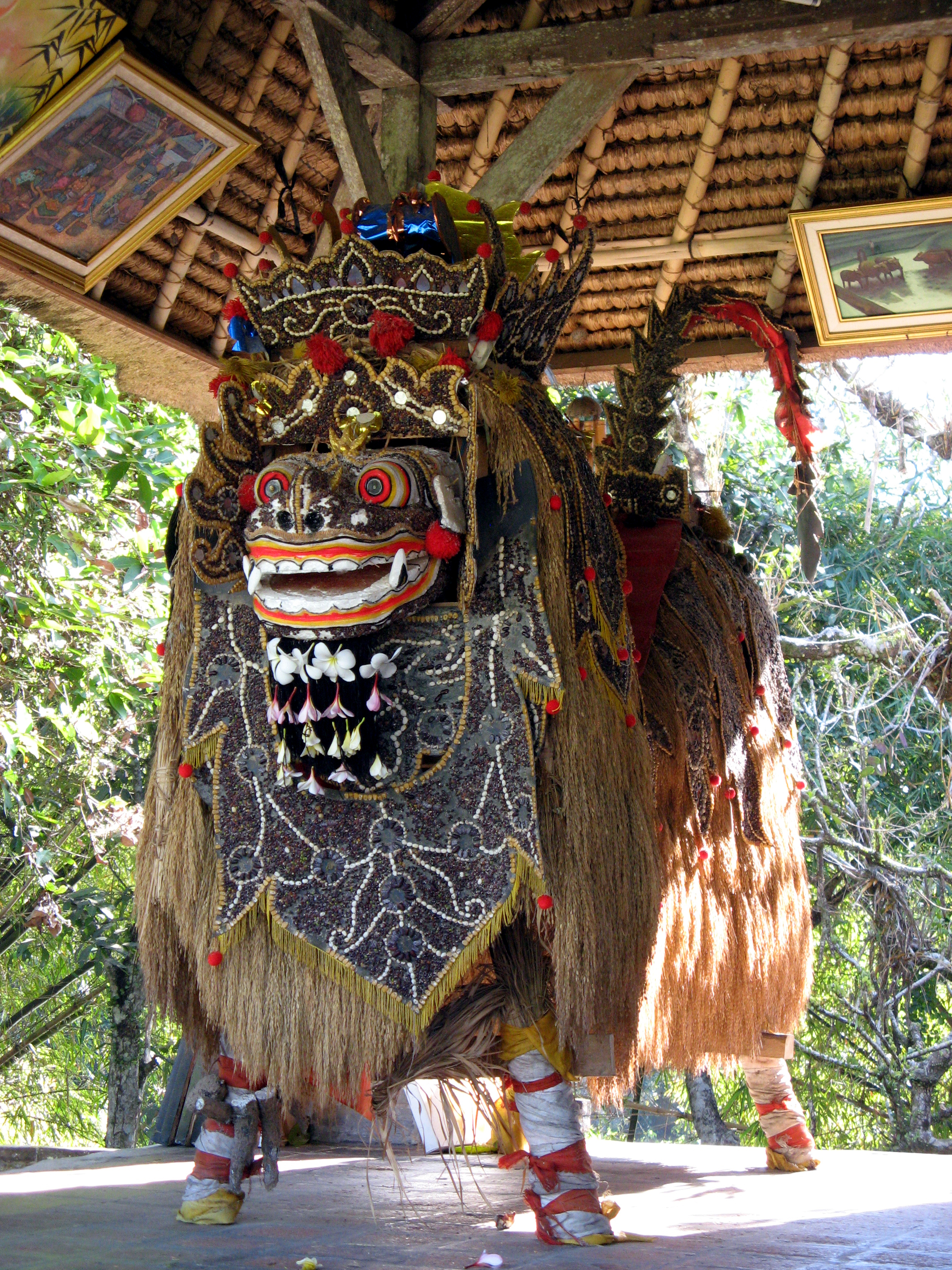 This elaborate Barong is kept in a pavilion in the inner courtyard of Pura Taman Ayun, the royal temple of the Mengwi dynasty.